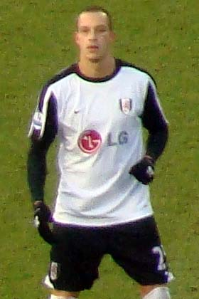 Bobby Zamora, Fulham v Spurs, December 2009 This file has been extracted from another file: Fulham v Spurs December 2009.jpg